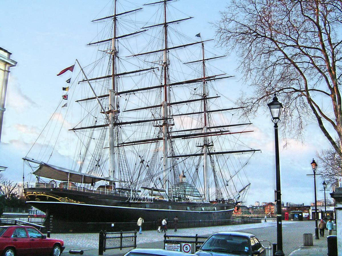 The Cutty Sark in Greenwich, London, UK